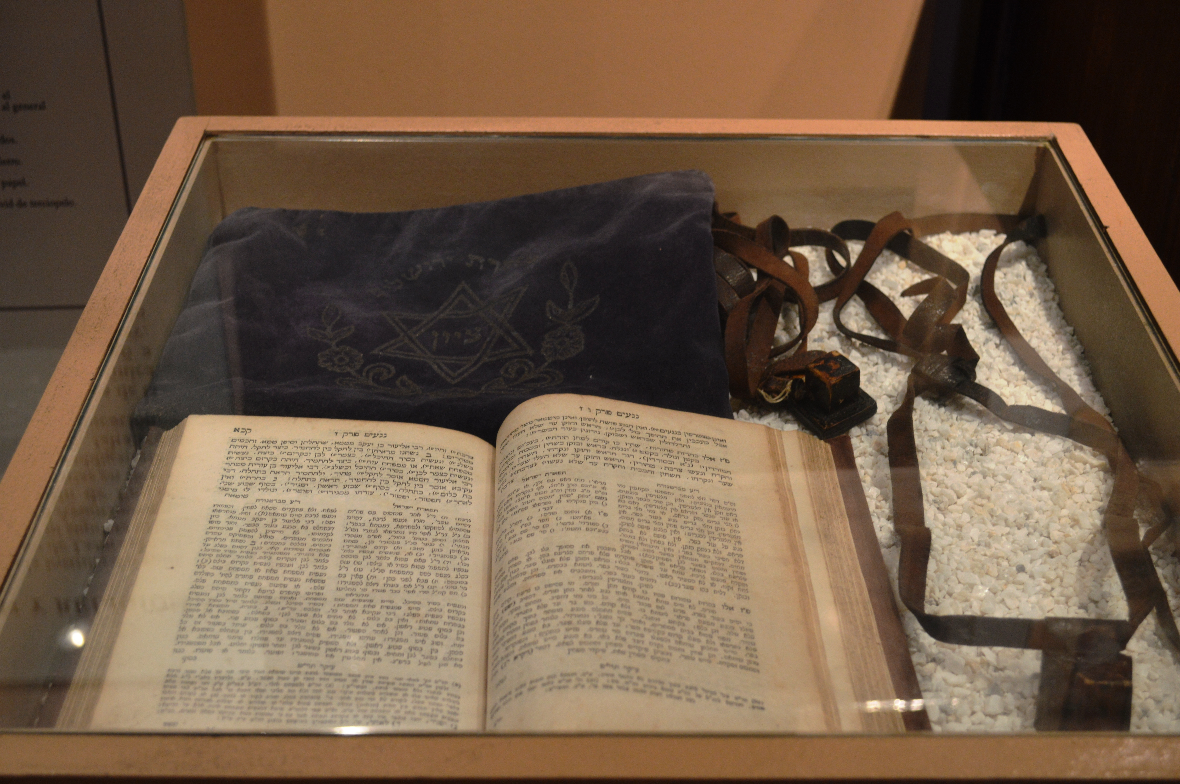 Jewish religious items at the Museo Metropolitano de Monterrey, Monterrey Mexico